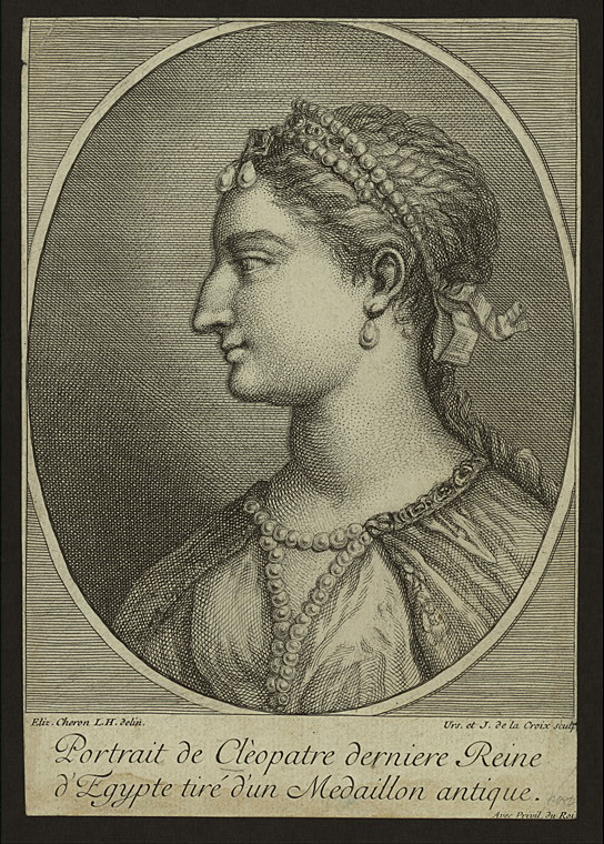 An engraving depicting the Ptolemaic ruler Cleopatra VII of Egypt (69 - 30 BC) by French artist Élisabeth Sophie Chéron (1648 - 1711) entitled "Portrait de Clèopatre derniere Reine d'Egypte tiré d'un Medaillon", from plate 40 of "Pierres Antiques Gravées Tirées des Principaux Cabinets de la France" (published c. 1736). The dimensions of the plate, with wide margins, are 190 x 132 mm (7½ x 5¼). The engraving is based on a medallion of Cleopatra dated to the Hellenistic period of antiquity.